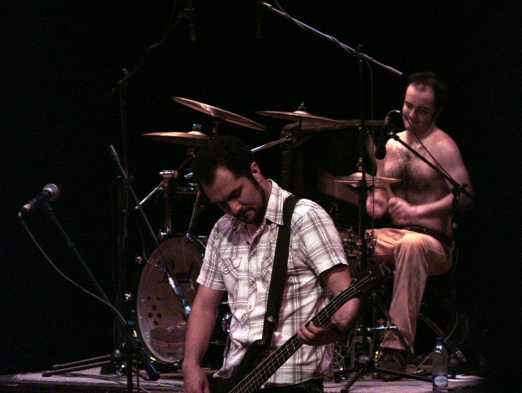 Ultrágeno, a Colombian rock band